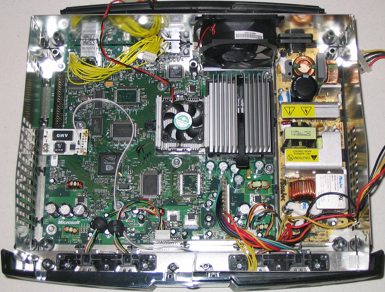 Xbox (revision 1.0) internal layout. Including mod-chip Duo X2. Photographed by Swaaye.